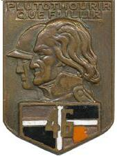 Regimental badge of the 46th Infantry Regiment (France).